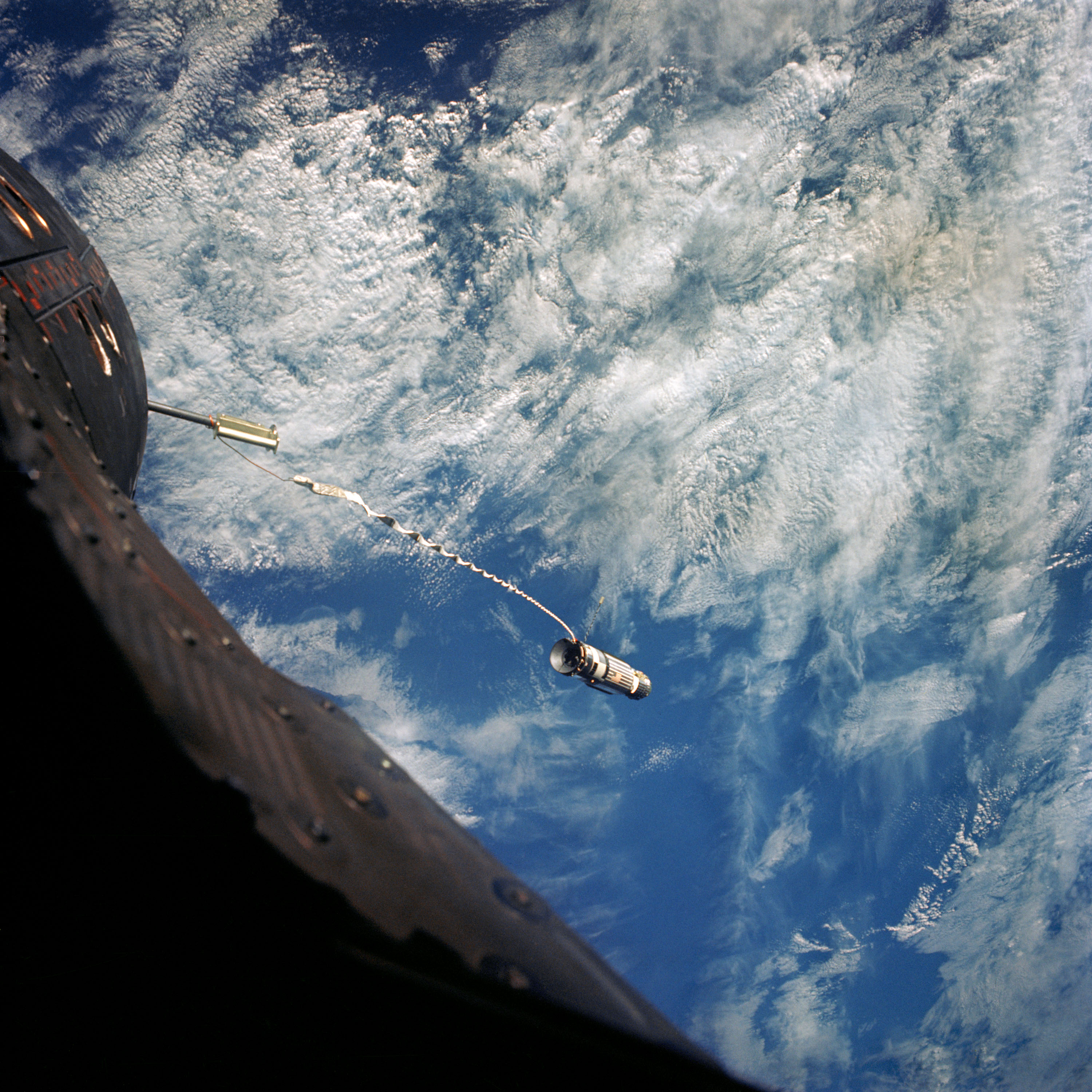 S66-62953 (13 Nov. 1966) --- A 100-foot tether line connects the Agena Target Docking Vehicle with the Gemini-12 spacecraft during its 32nd revolution of Earth. Clouds over the Pacific Ocean are in the background.